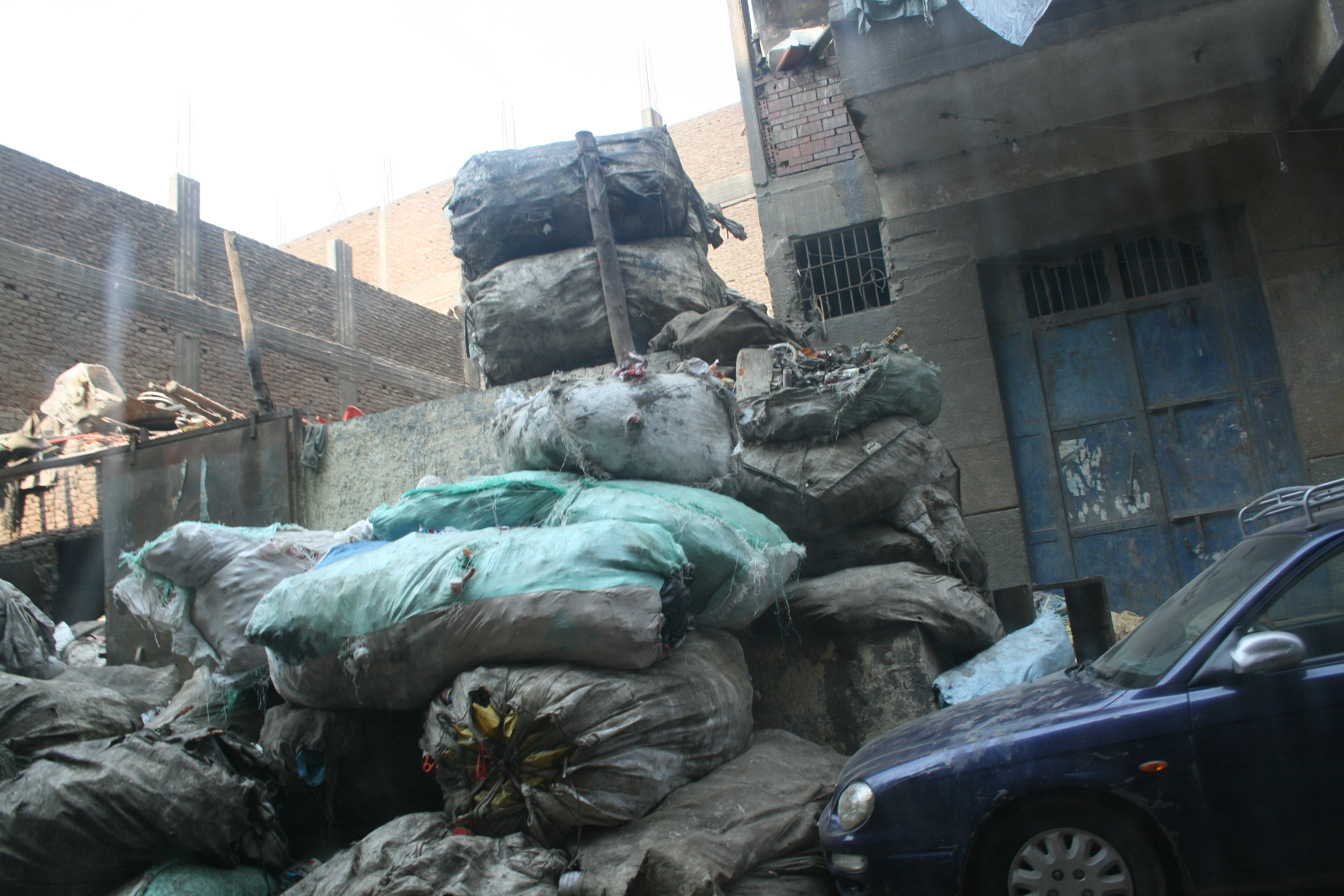 Manshiyat naser-Garbage City, Cairo, Egypt